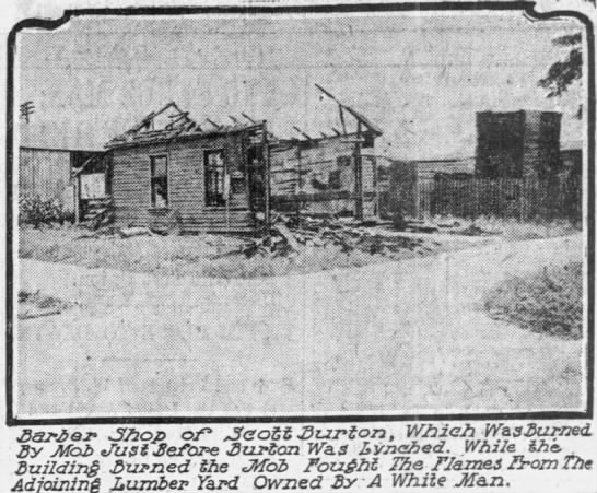 Chicago Tribune. 17 Aug 1908.